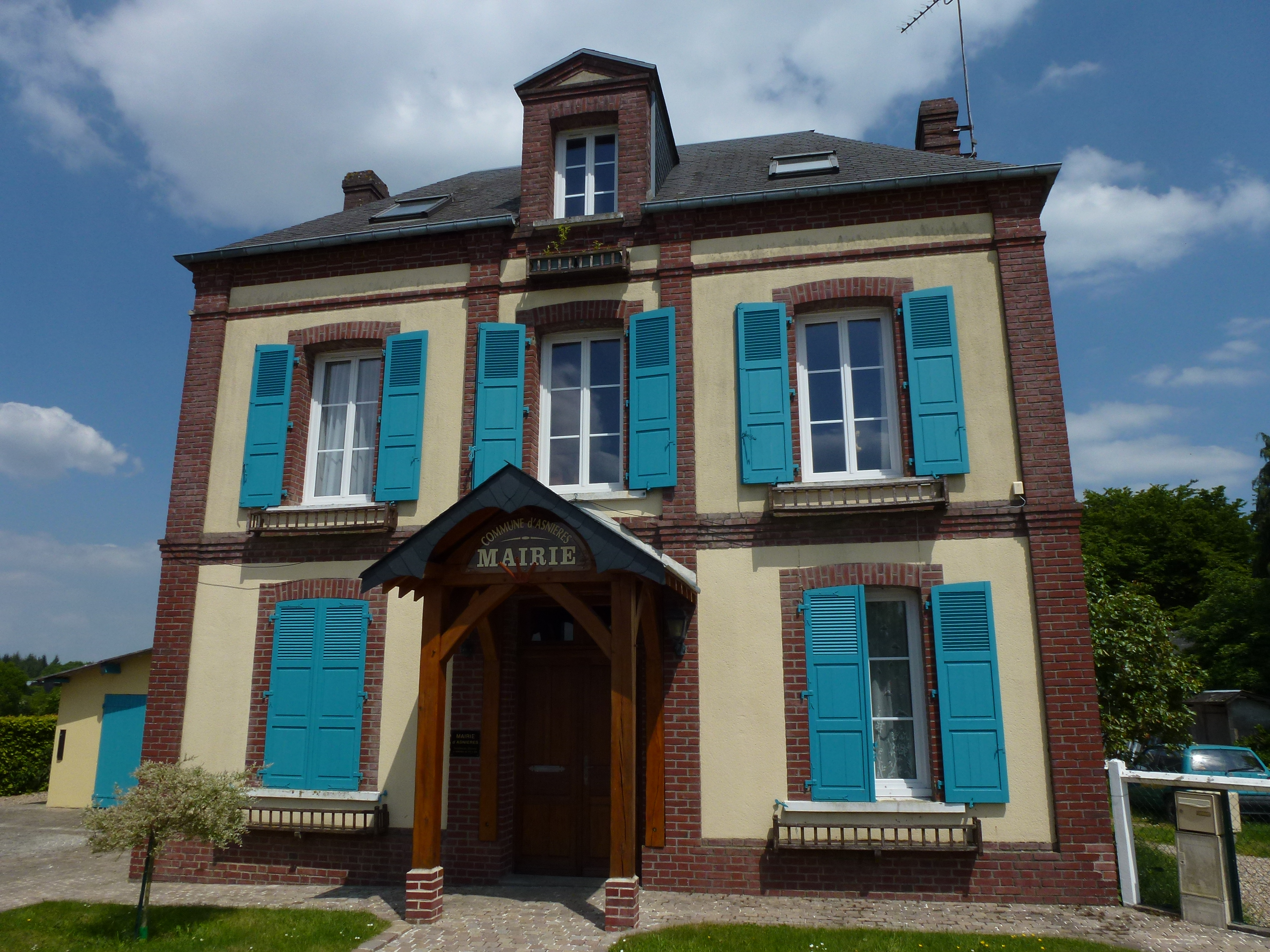 Asnières (Eure, Fr) mairie